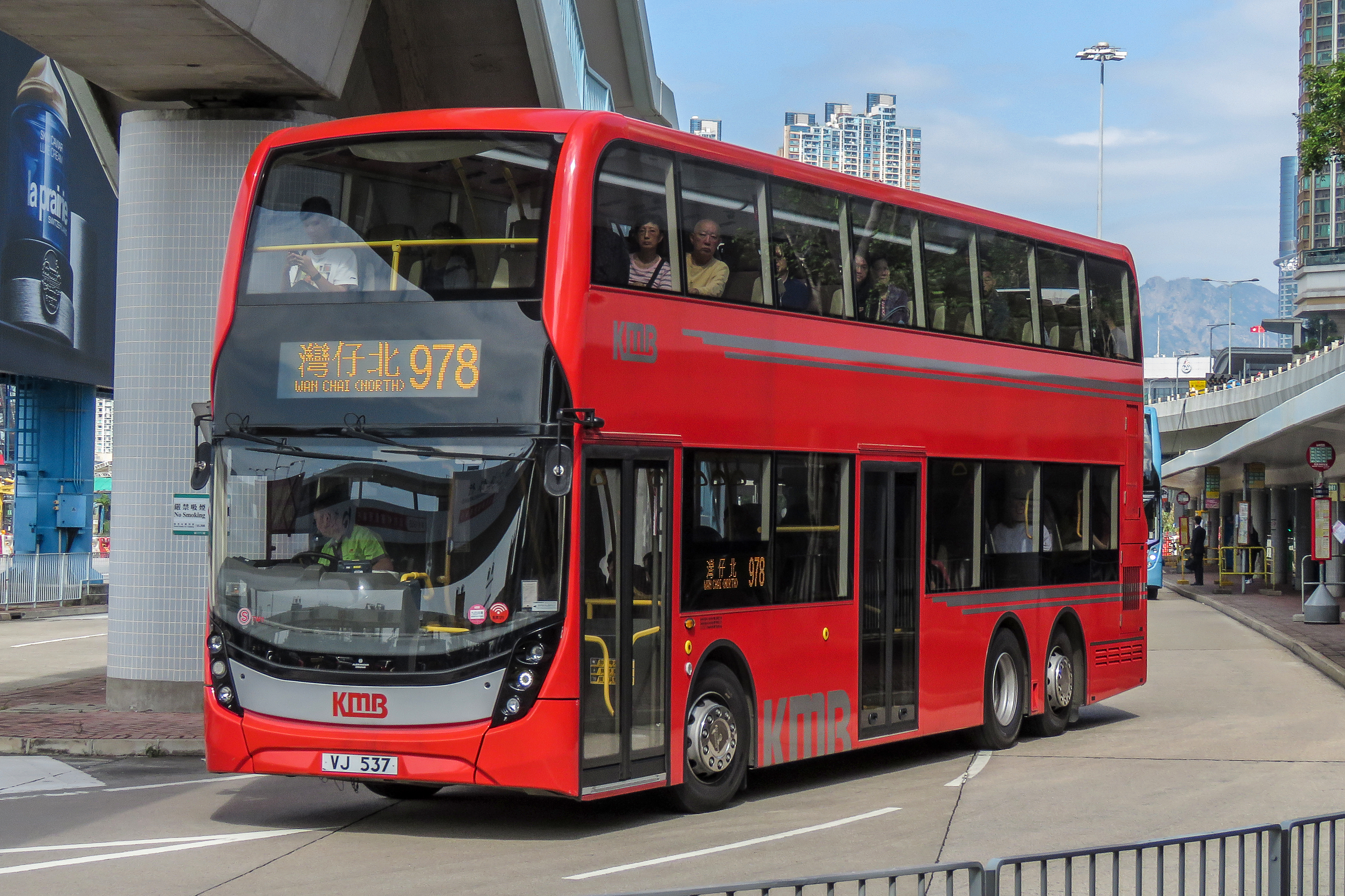 Just another ATENU? Later it turned out to be TW1, so the pain was worth it!